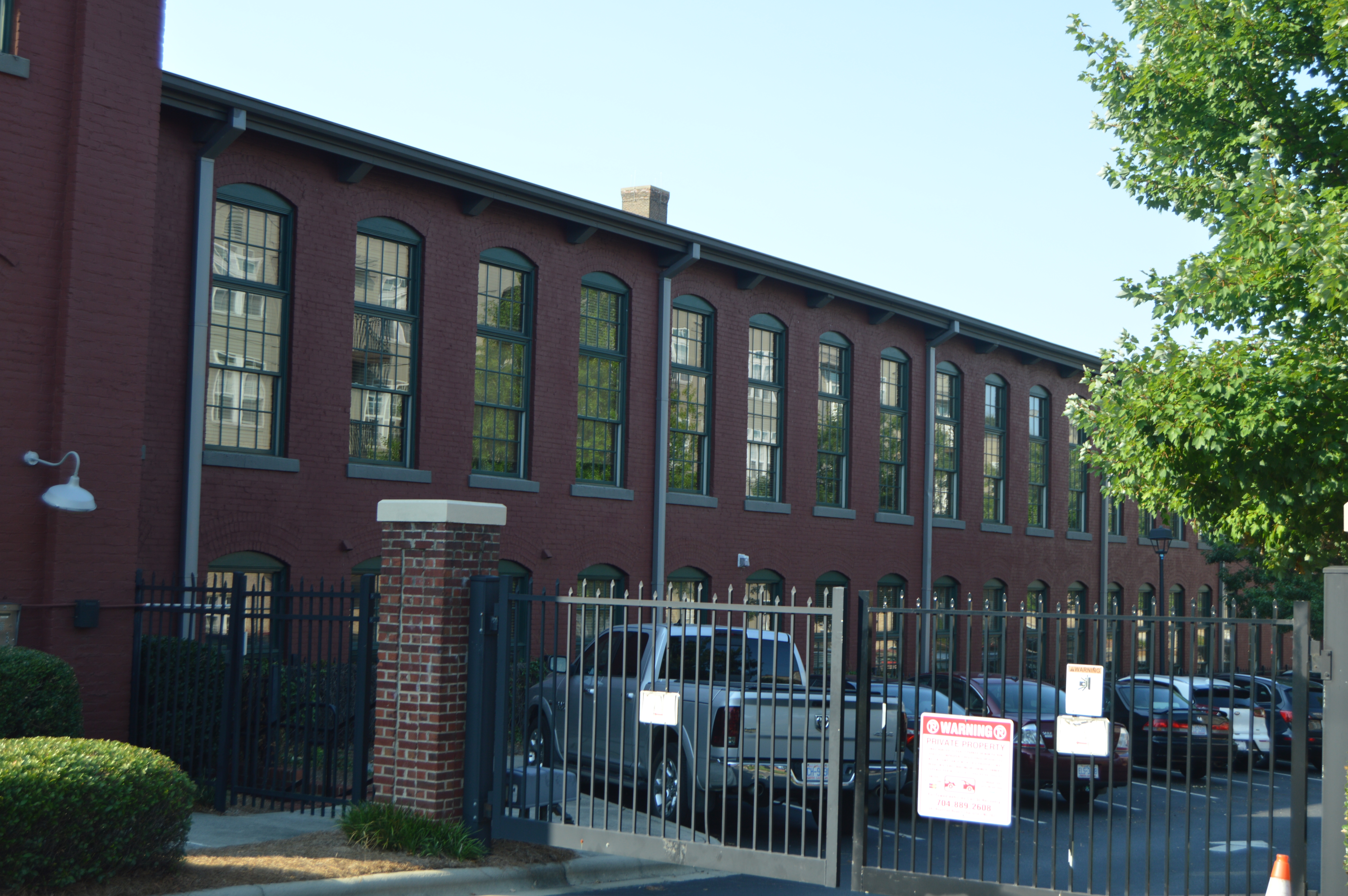 One of the buildings in the Chadwick-Hoskins Mill #3 complex, located at 311 E. Twelfth Street in Charlotte, North Carolina, United States. Built in 1901 and since converted into apartments, it is listed on the National Register of Historic Places.